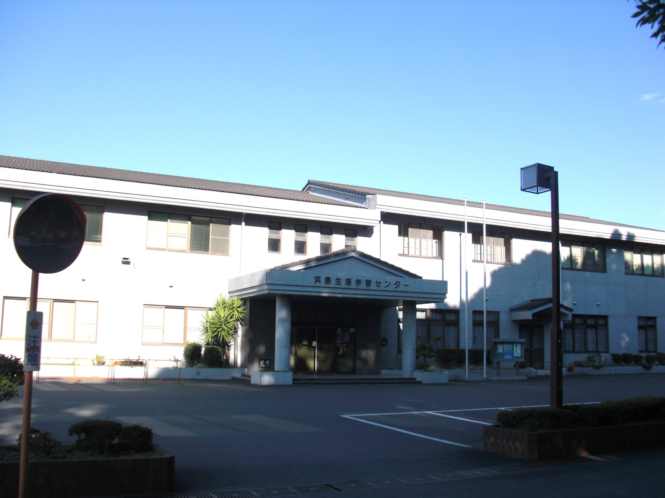 This is a community center in Japan.